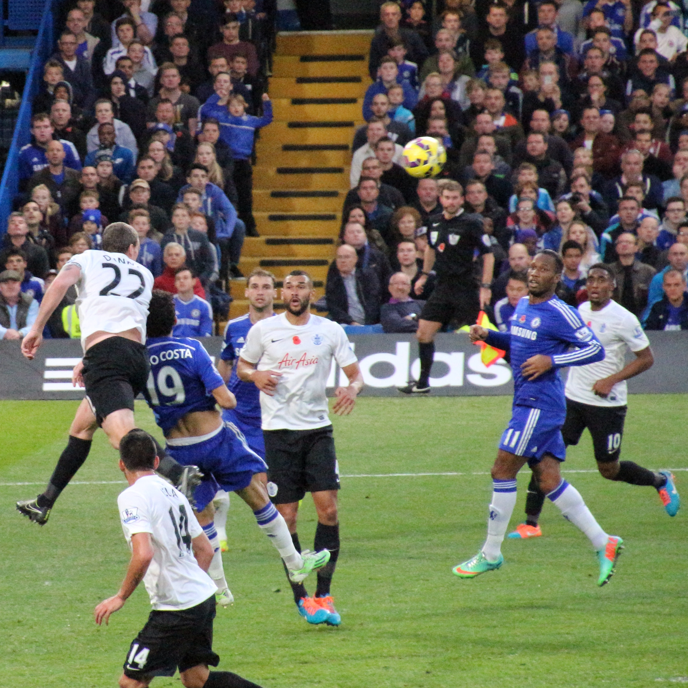 Chelsea 2 QPR 1 Premier League match between Chelsea and Queens Park Rangers at Stamford Bridge on 1 November 2014.